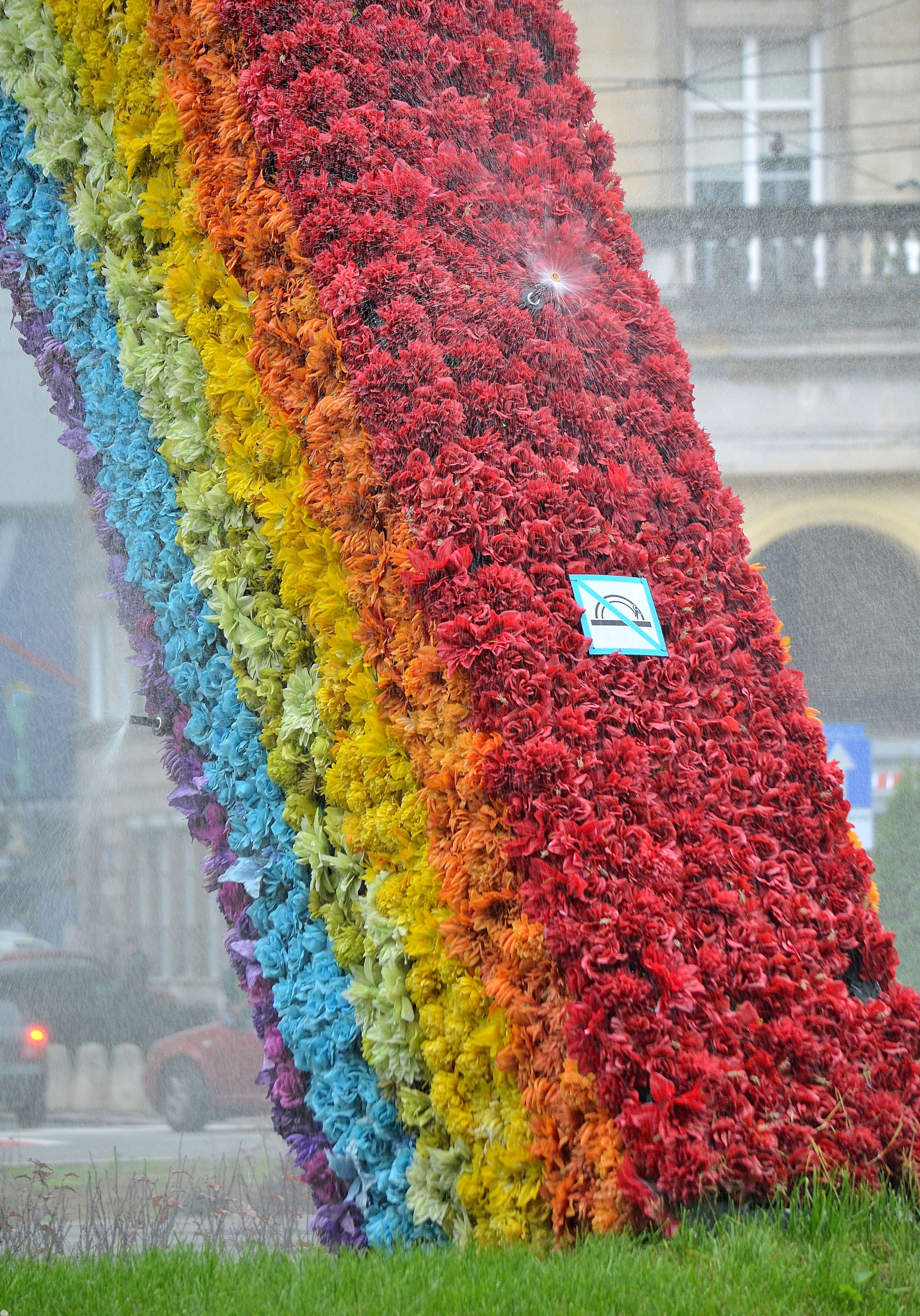 "Raibow" in the Saviour Square in Warsaw